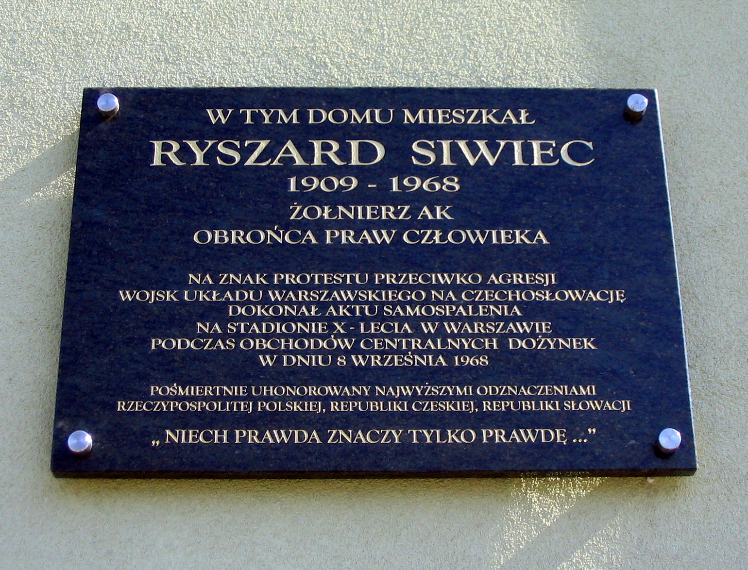 Memorial board on the house, where Ryszard Siwiec was living.